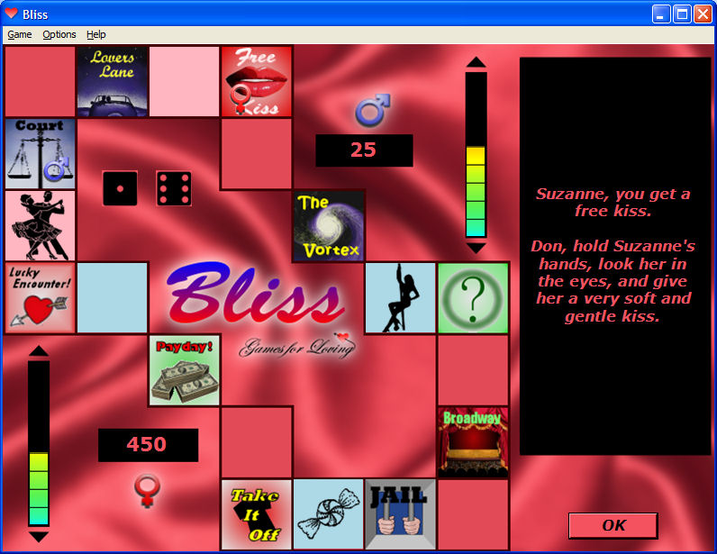 Screen Shot from the Bliss Video Game